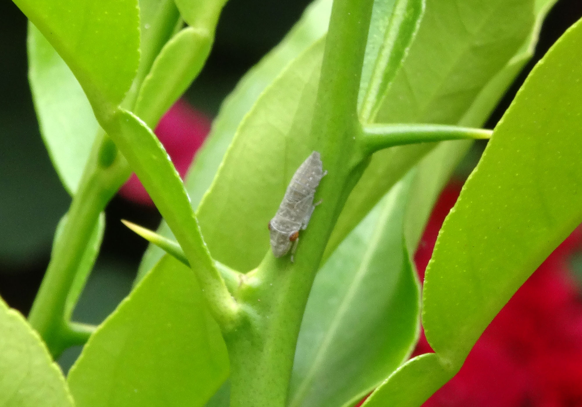 The nymph of a Sharpshooter, a type of Leafhopper. Found on a lime tree in San Diego, Ca.